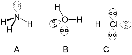 Lewis structure of lone pairs in several atoms